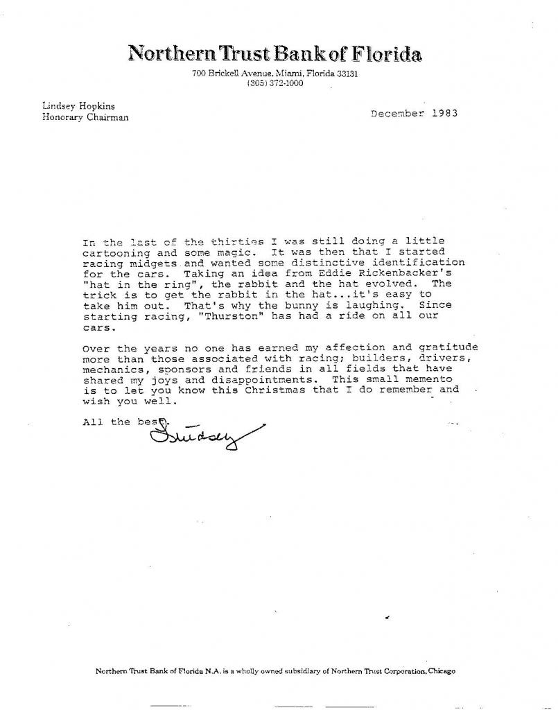 Lindsey Hopkins Letter